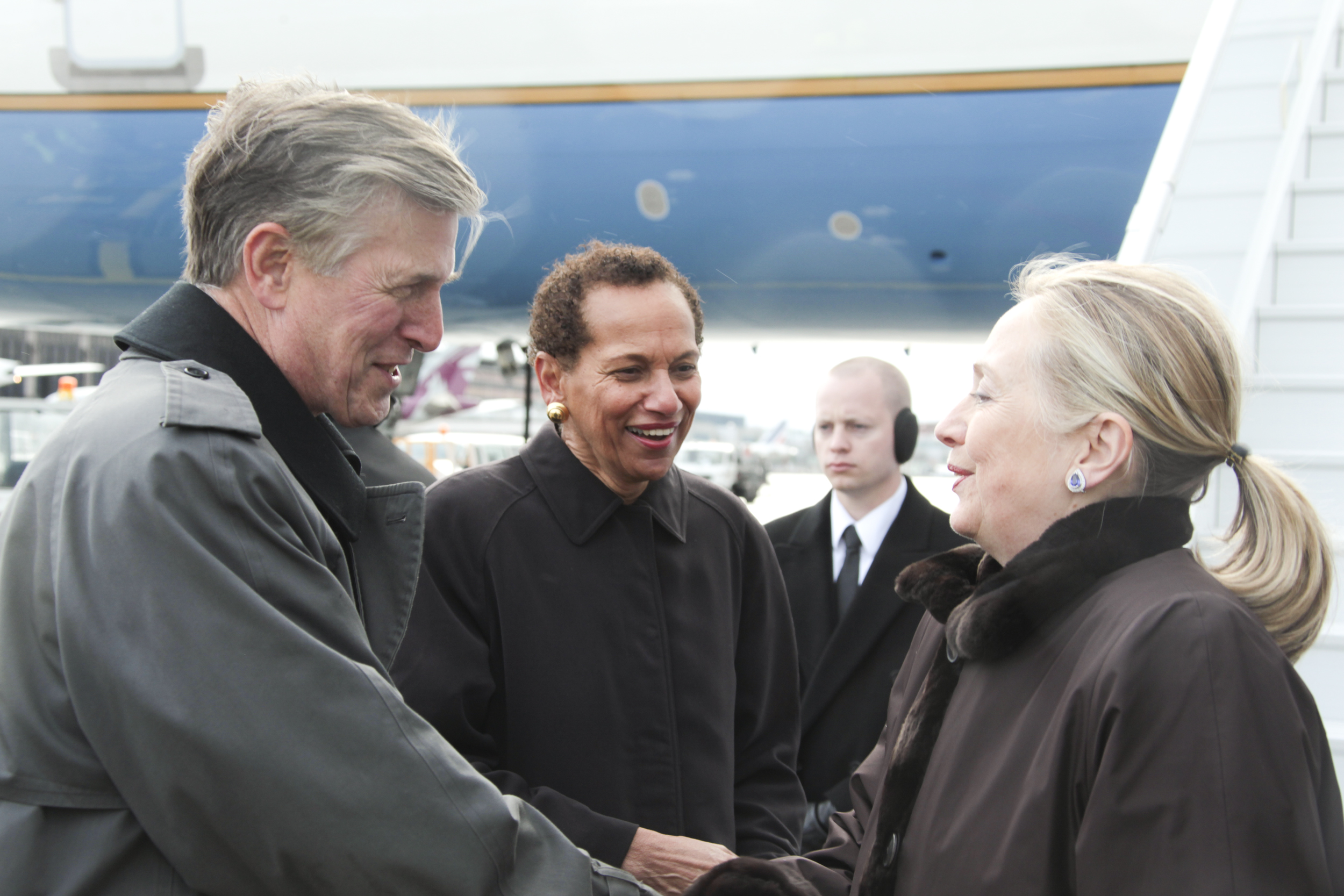 Ambassador Donald S. Beyer Jr, U.S. Ambassador to Switzerland, and Ambassador Betty E. King, U.S. Permanent Representative to the United Nations in Geneva, greet Secretary Clinton on arrival at Geneva Airport. Secretary of State Hillary Rodham Clinton visited Geneva December 6-7, 2011. [Eric Bridiers photo / State Department/ Public Domain]